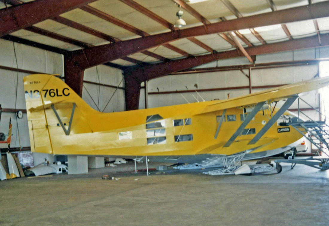 Wilson Global Explorer amphibian showing extensive glazing at rear of the wide fuselage. Photo at Santa Fe airport, New Mexico, USA.